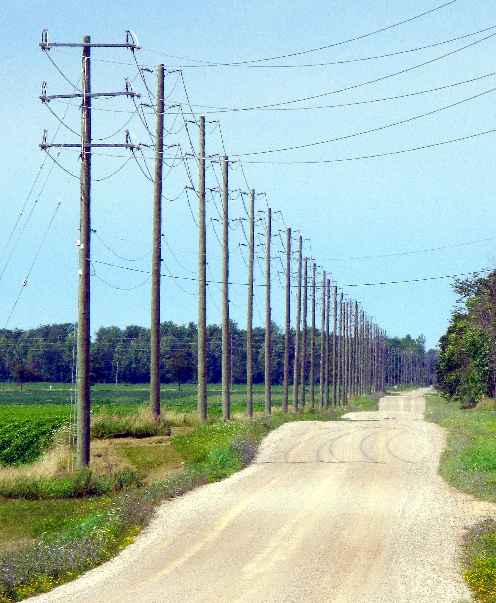 Council Line in Huron County, Ontario, Canada.